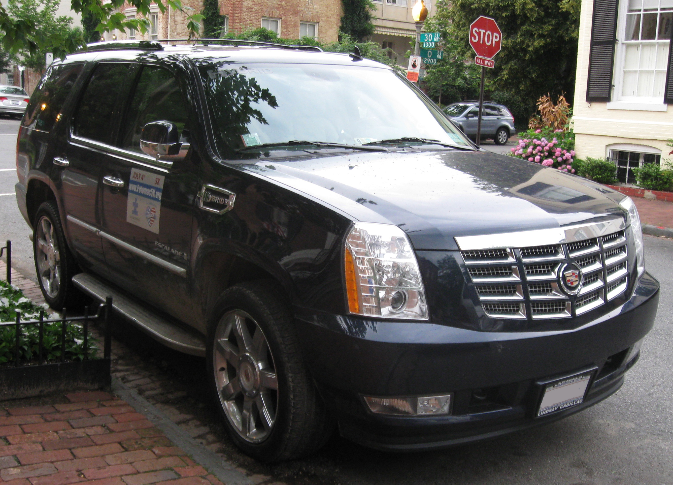 2009 Cadillac Escalade Hybrid photographed in Washington, D.C., USA.